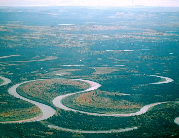 Meanders of the Nowitna River, Alaska